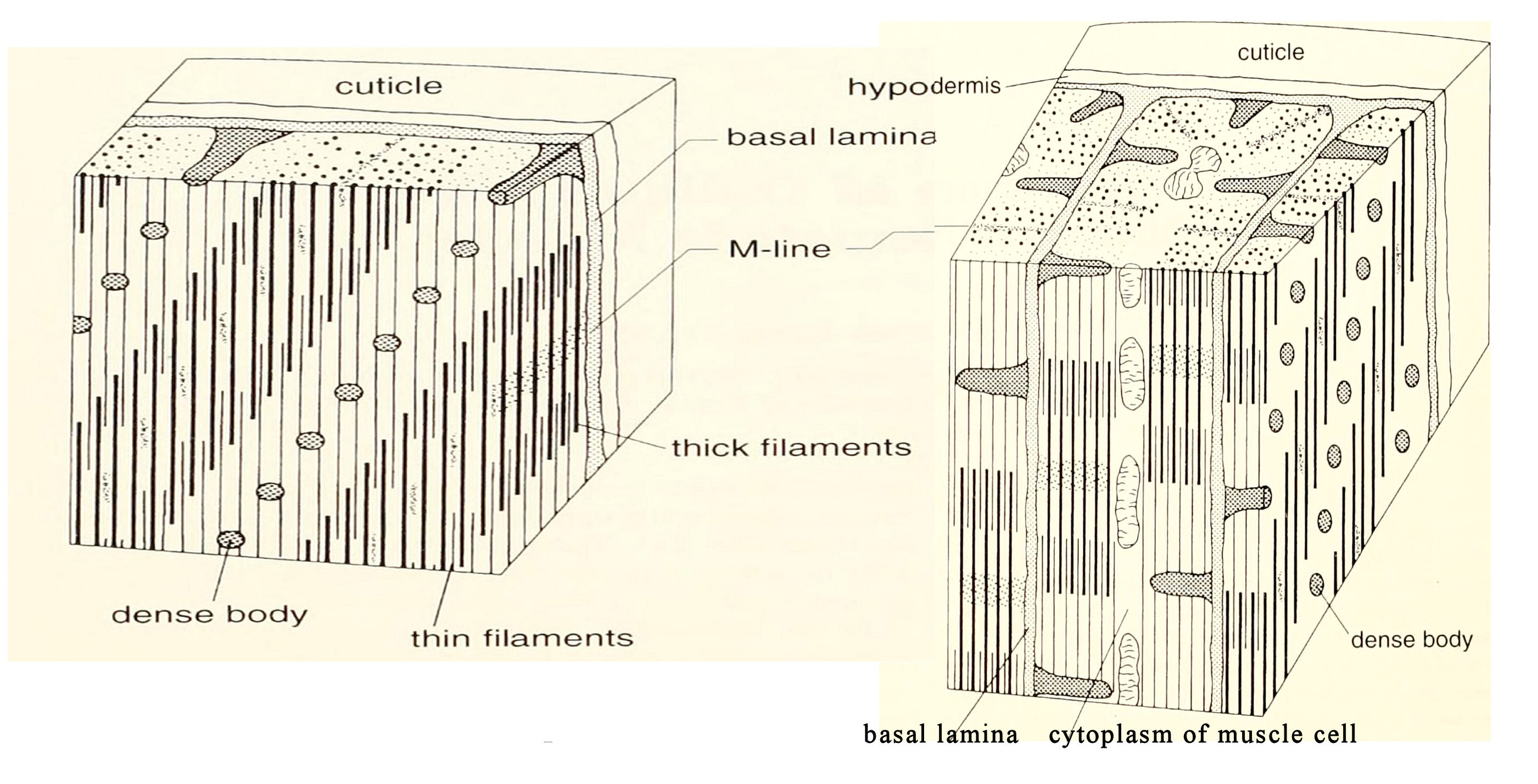 Mermis nigrescens (right),Caenorhabditis elegans (left) body wall muscle